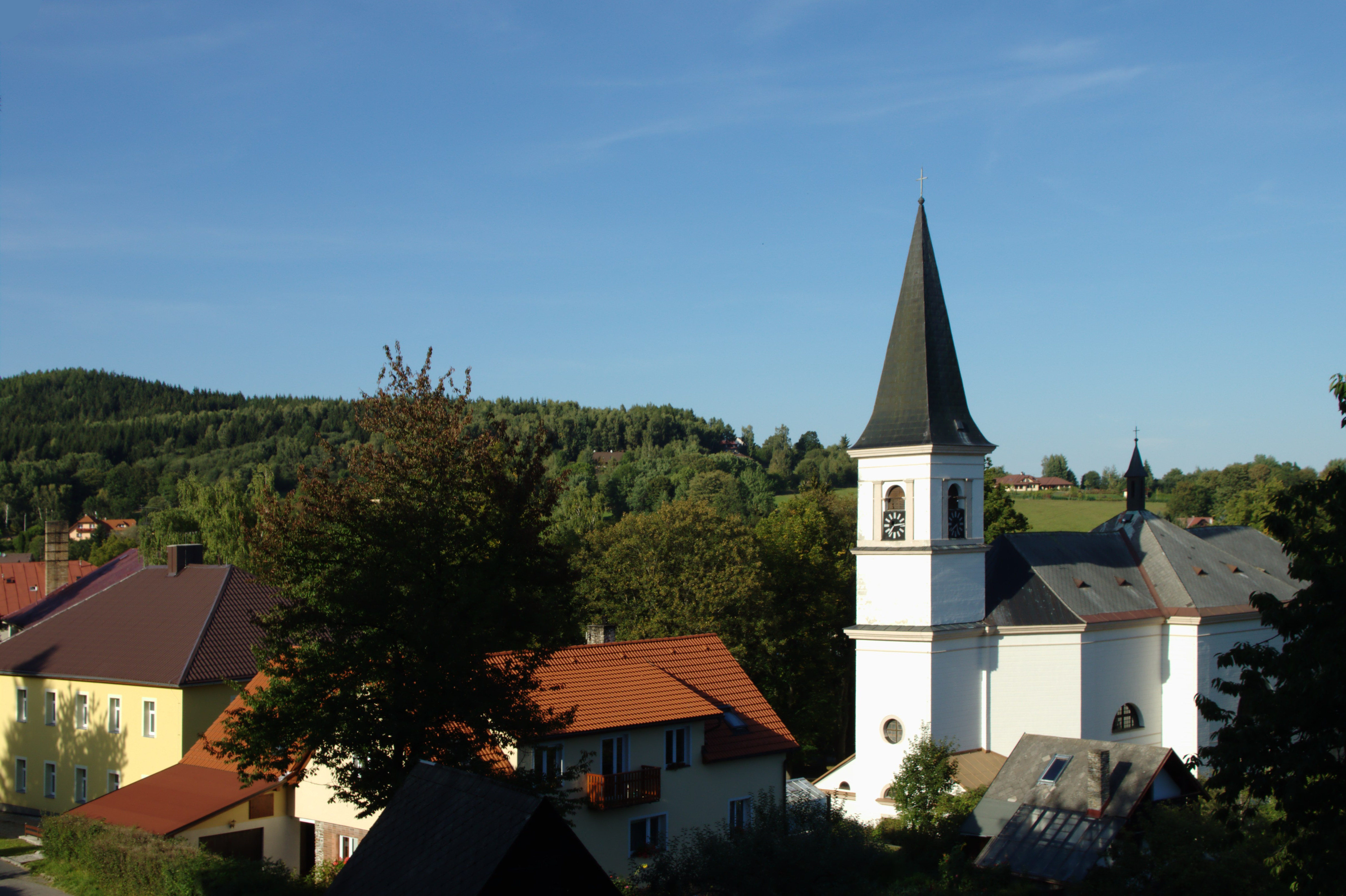 Stachy seen from SW, South Bohemian Region, CZ